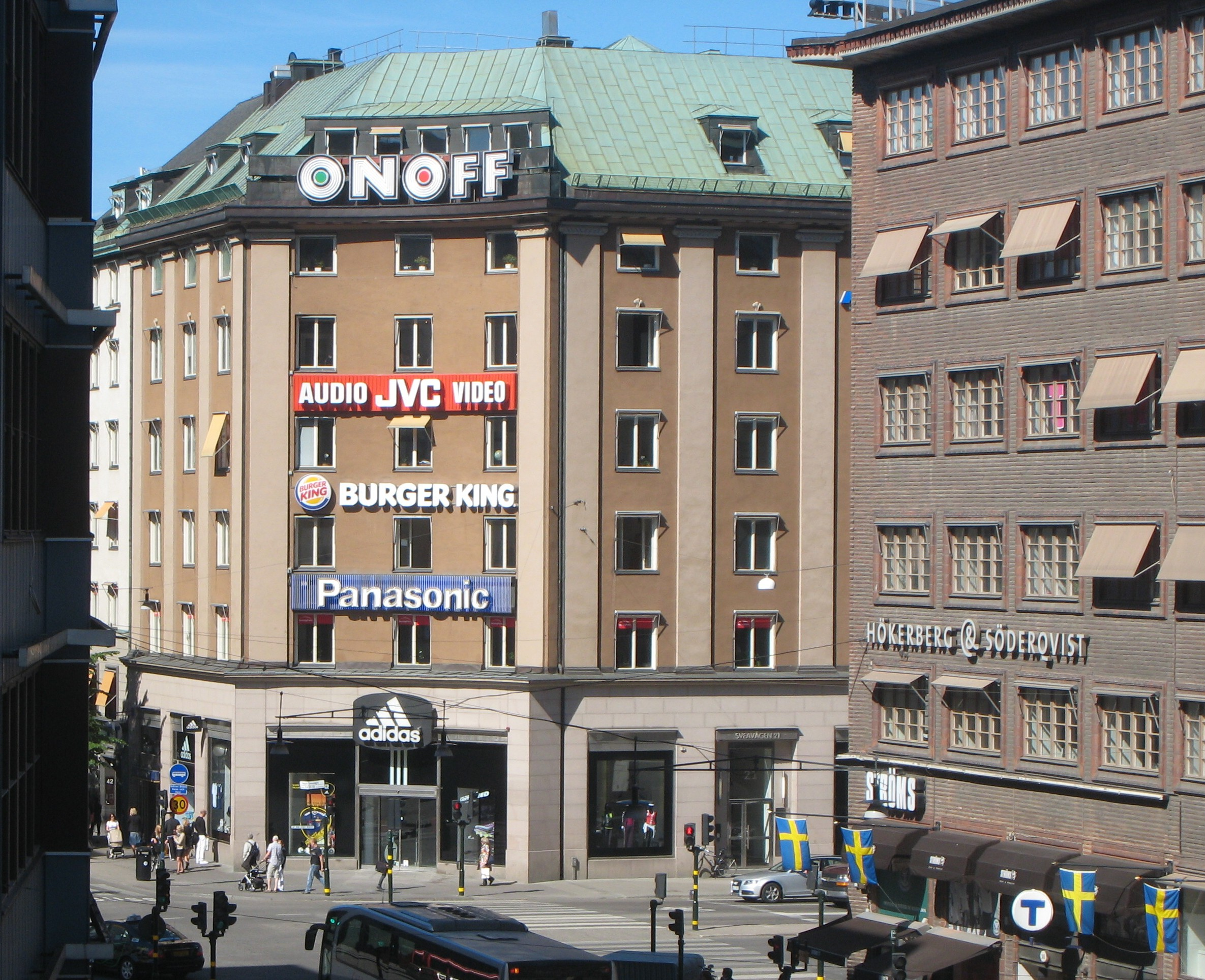 Fastigheten Hästhuvudet 13, i korsningen Sveavägen/Kungsgatan. Ritad 1919 av Sven Wallander och Hjalmar Westerlund.